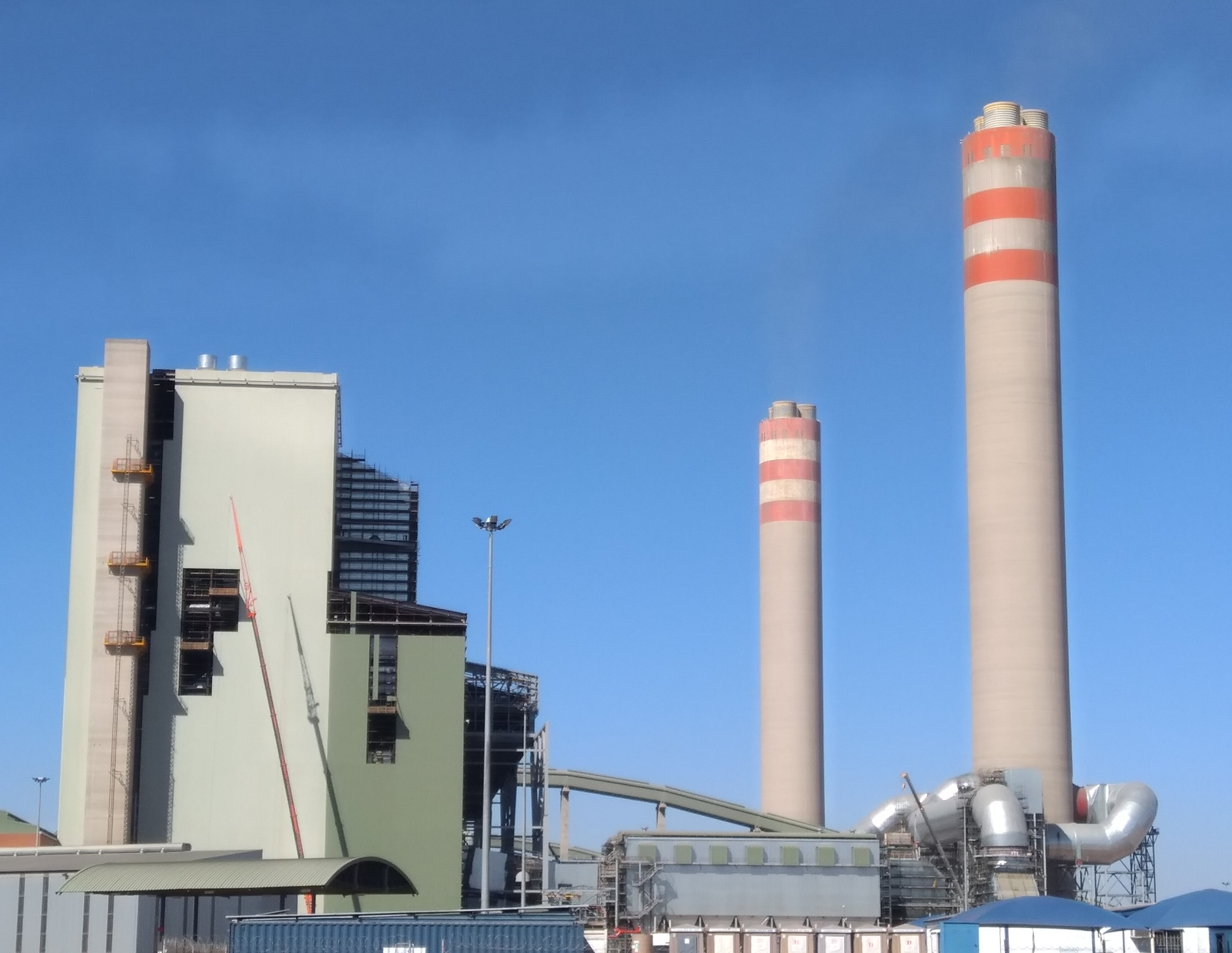 Northern view of Medupi Power Station